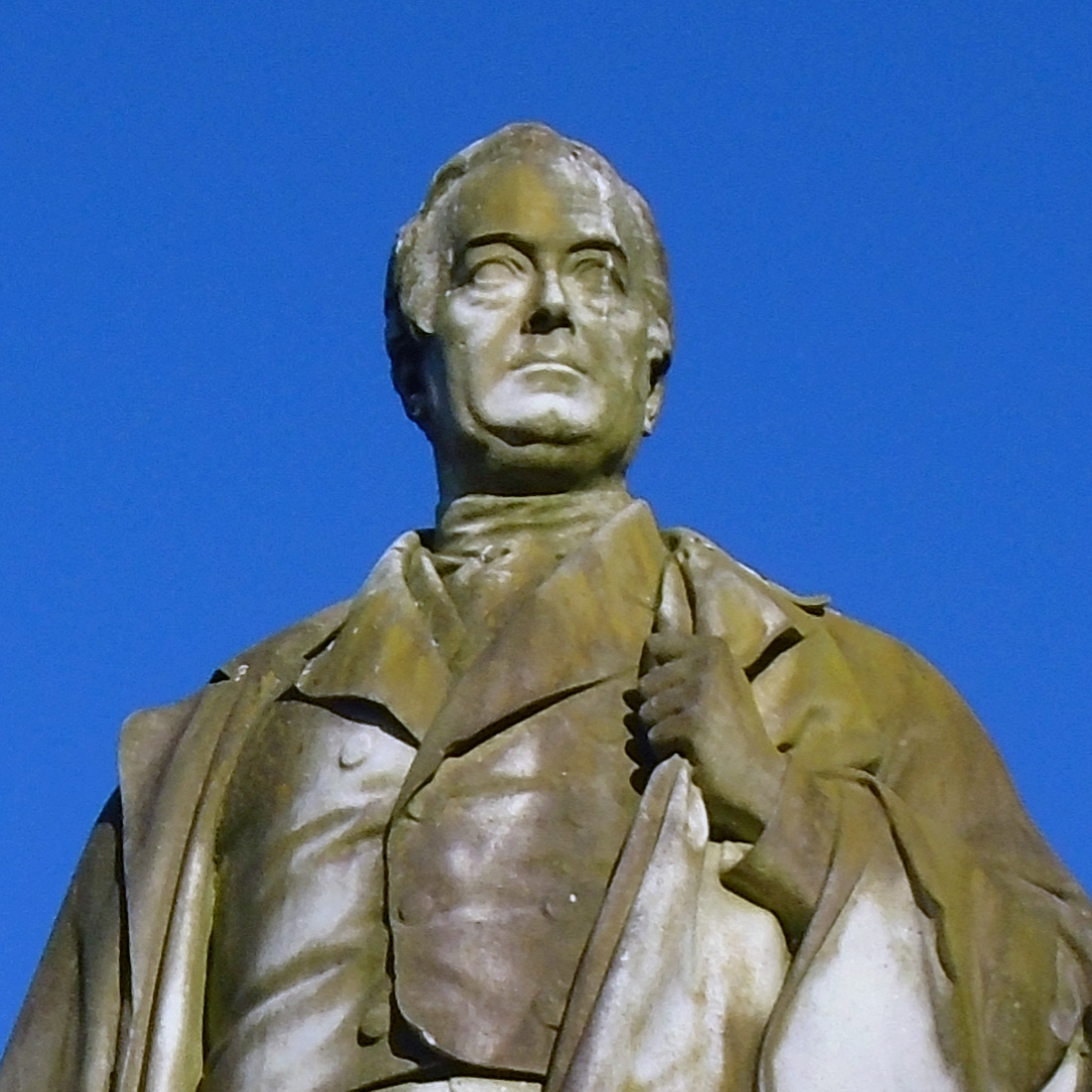 The statue itself. Needs a clean; lichen seems to be attracted to Portland stone.